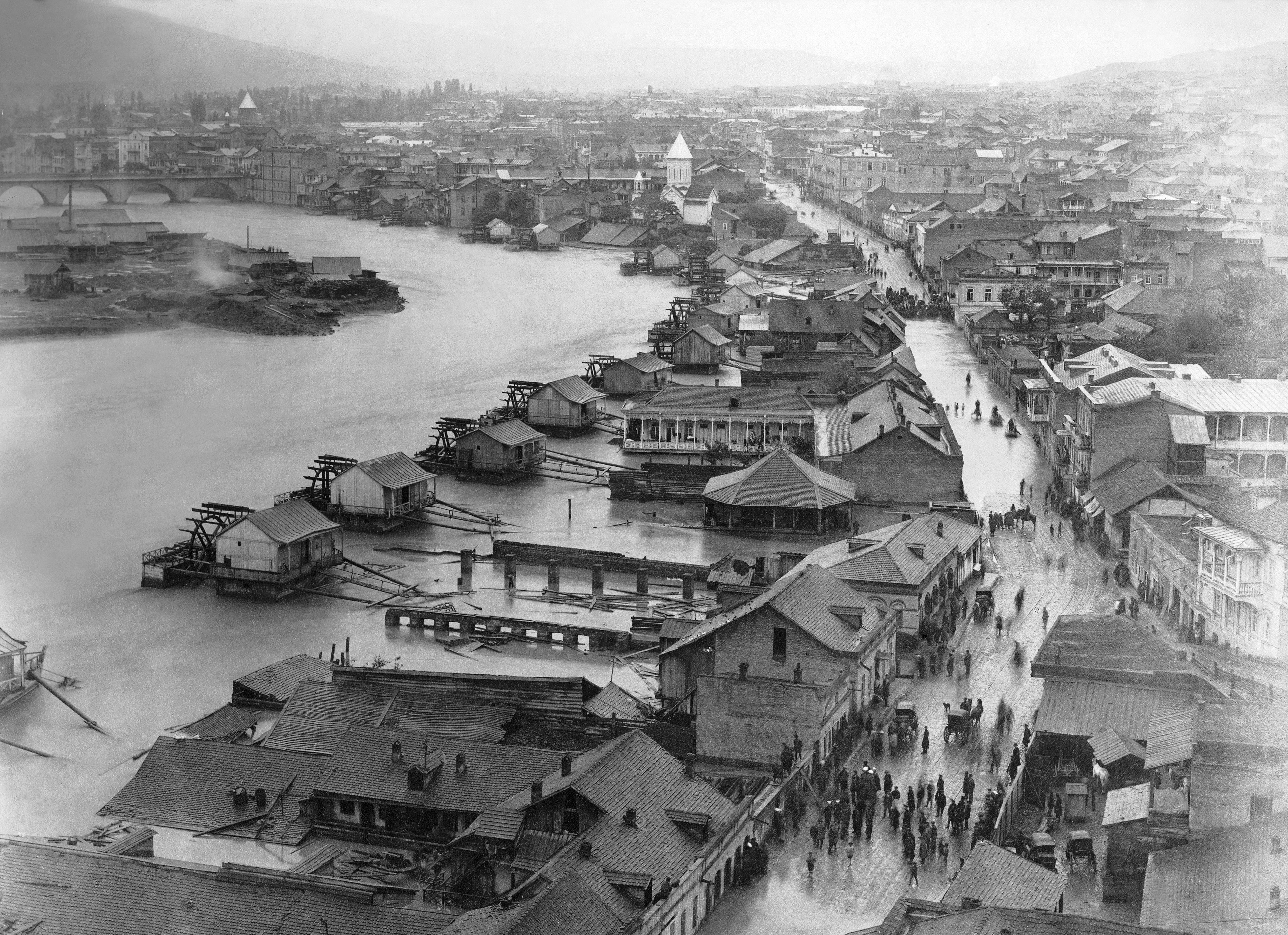 Tbilisi in XIX century, view from Metekhi plateau to "Rike" street during the 1893 flood